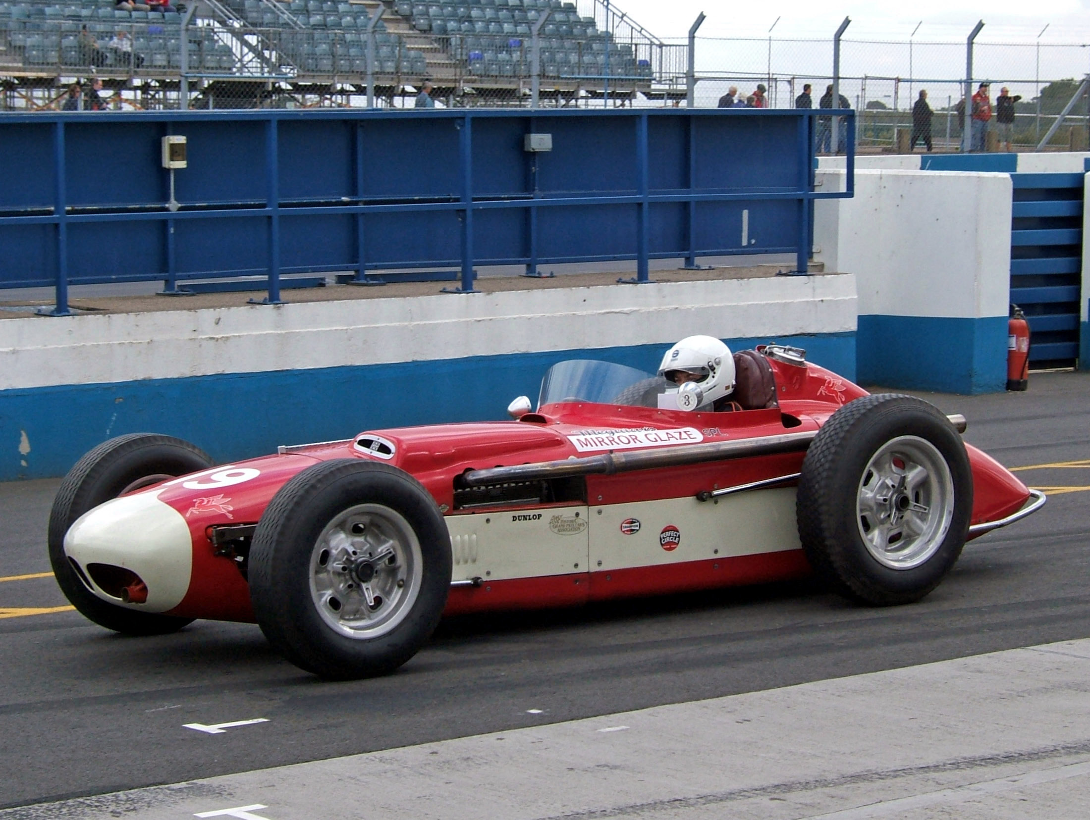 A 4.2 litre, 1957 Kurtis Indy Roadster returns to the pit lane after practice, during the VSCC SeeRed race meeting, Donington Park, September 2007.